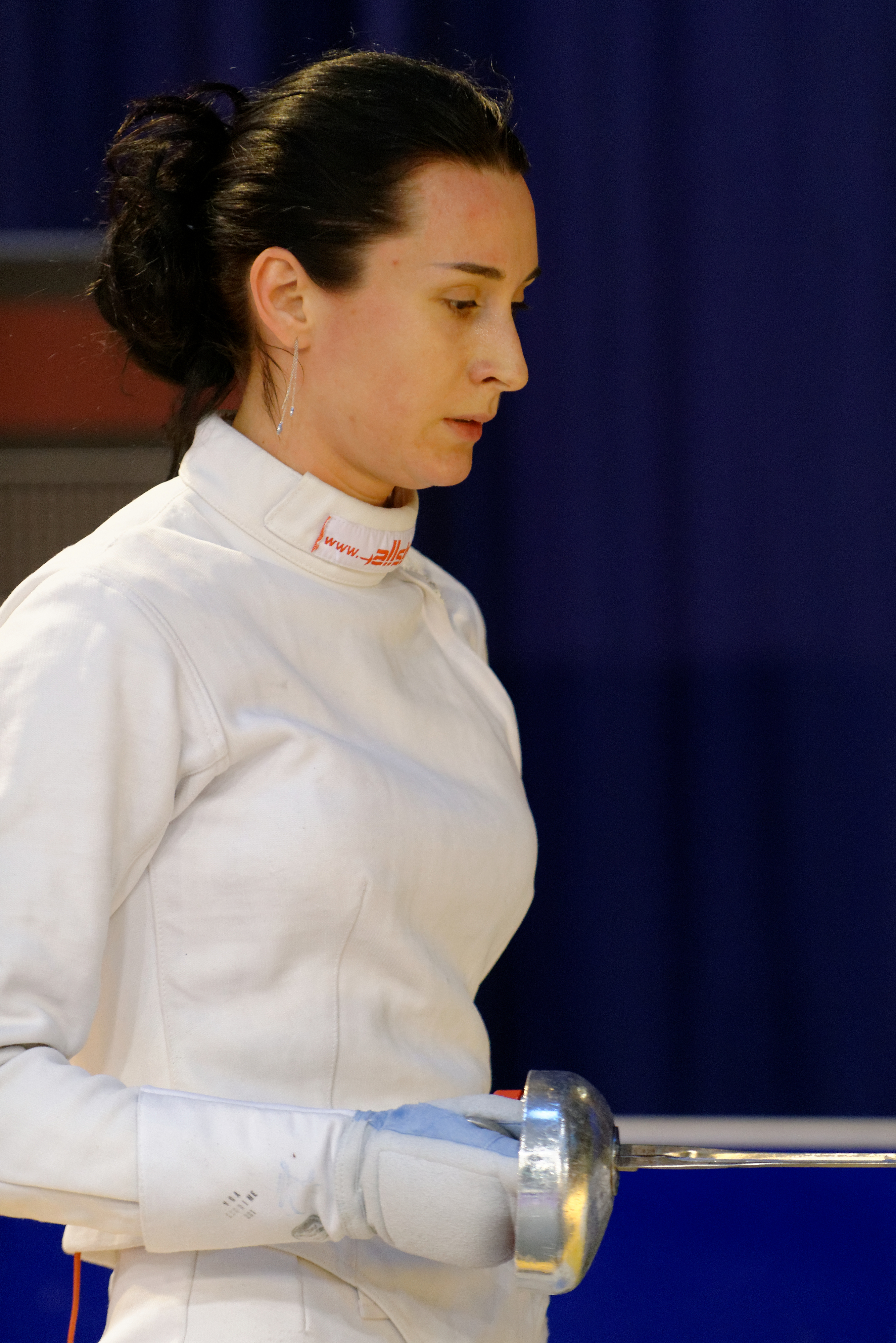 Russia's Lyubov Shutova at the 2014 Challenge International de Saint-Maur (women's épée World Cup).